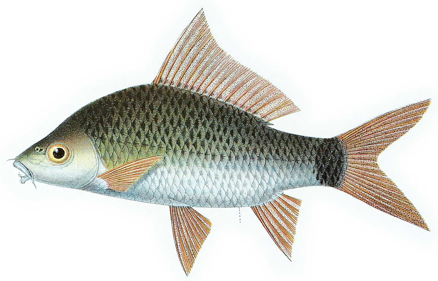 Osteochilus kappenii, described in the original publication as Rohita (Rohita) Kappeni